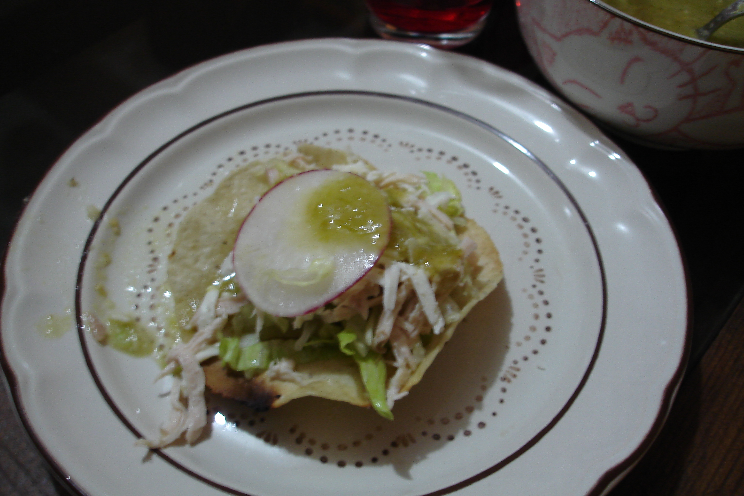 Chalupa, typical food from Pachuca Hidalgo México, chalupas are usually eaten during the Mexican independence day celebrations, however they can be found in cenadurias or chaluperias on the weekends